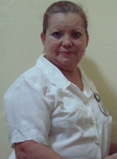 Laura Pollán, Ladie in White, the wife of de cuban political prisoner Héctor Maseda.